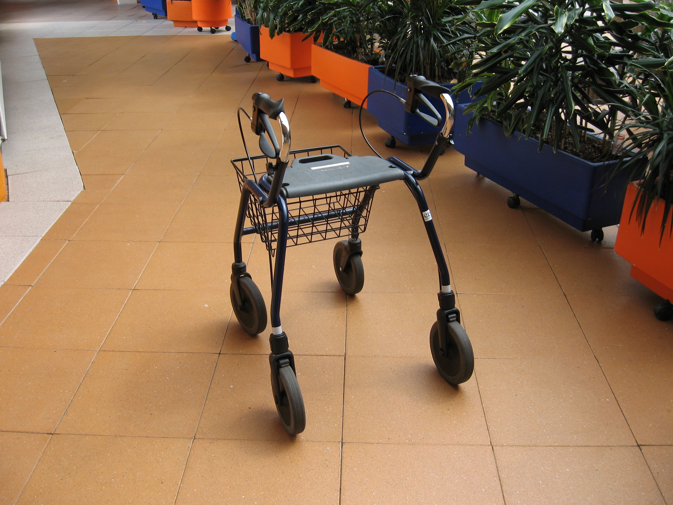 "Rollator", to help with walking